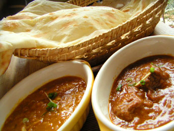 Indian curry accompanied with dosa. Taken in Tokyo, Japan.